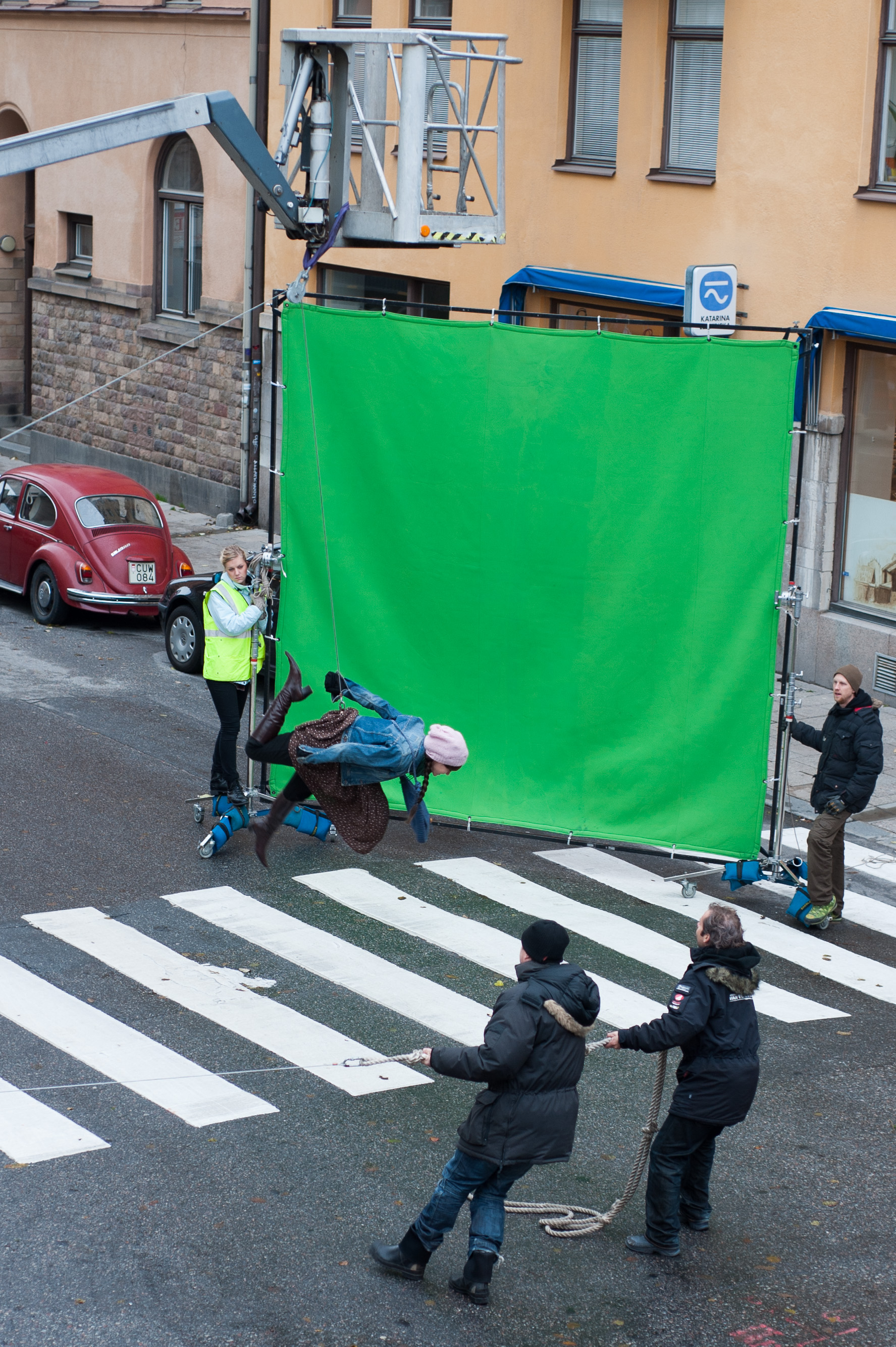 Stunt performer Madeleine Trollvik at the set of Kommissarie Späck, October 2009